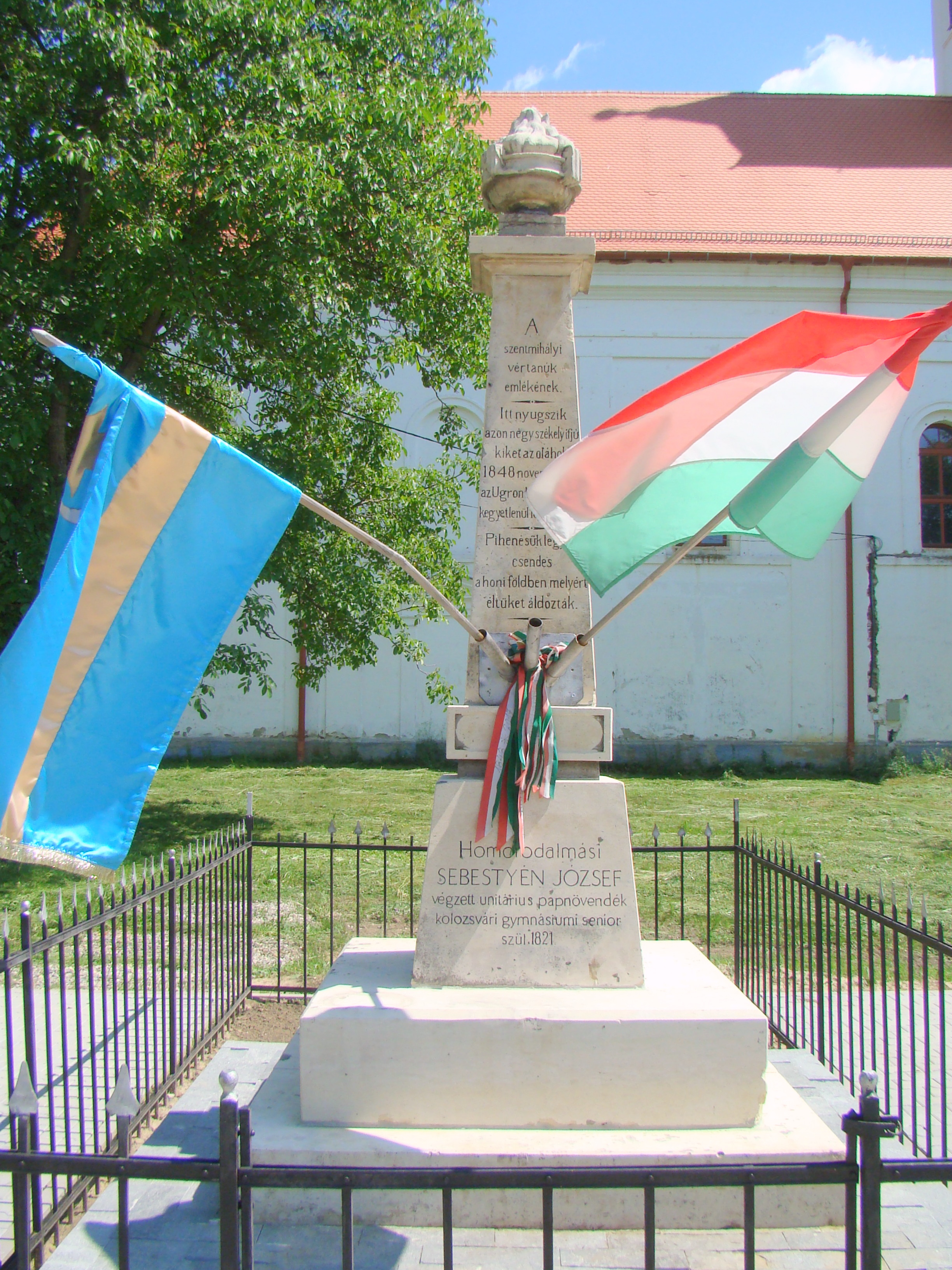 Mihăileni (Şimoneşti), Harghita county, Romania